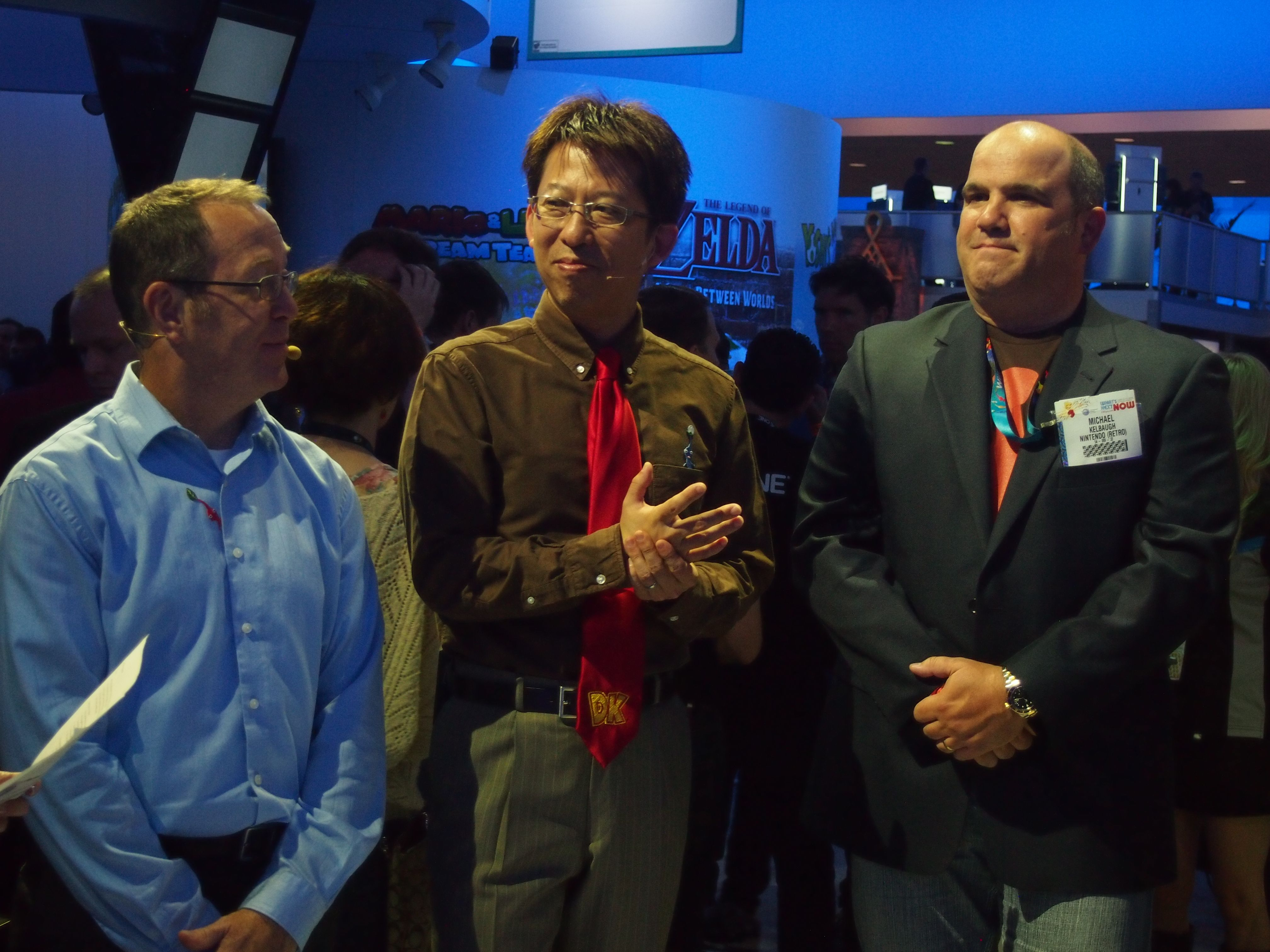 Kensuke Tanabe (nintendo producer, middle) and Michael Kelbaugh (president of Retro Studios, right) at E3 2013.